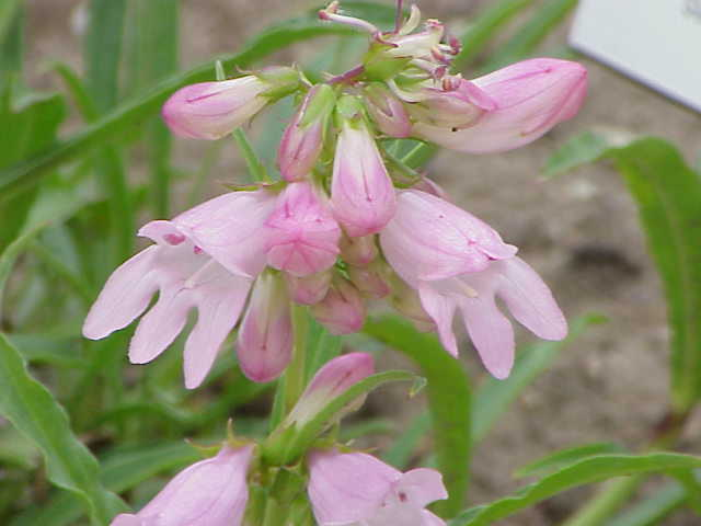 Species: Penstemon bridgesii Family: Plantaginaceae Image No. 3